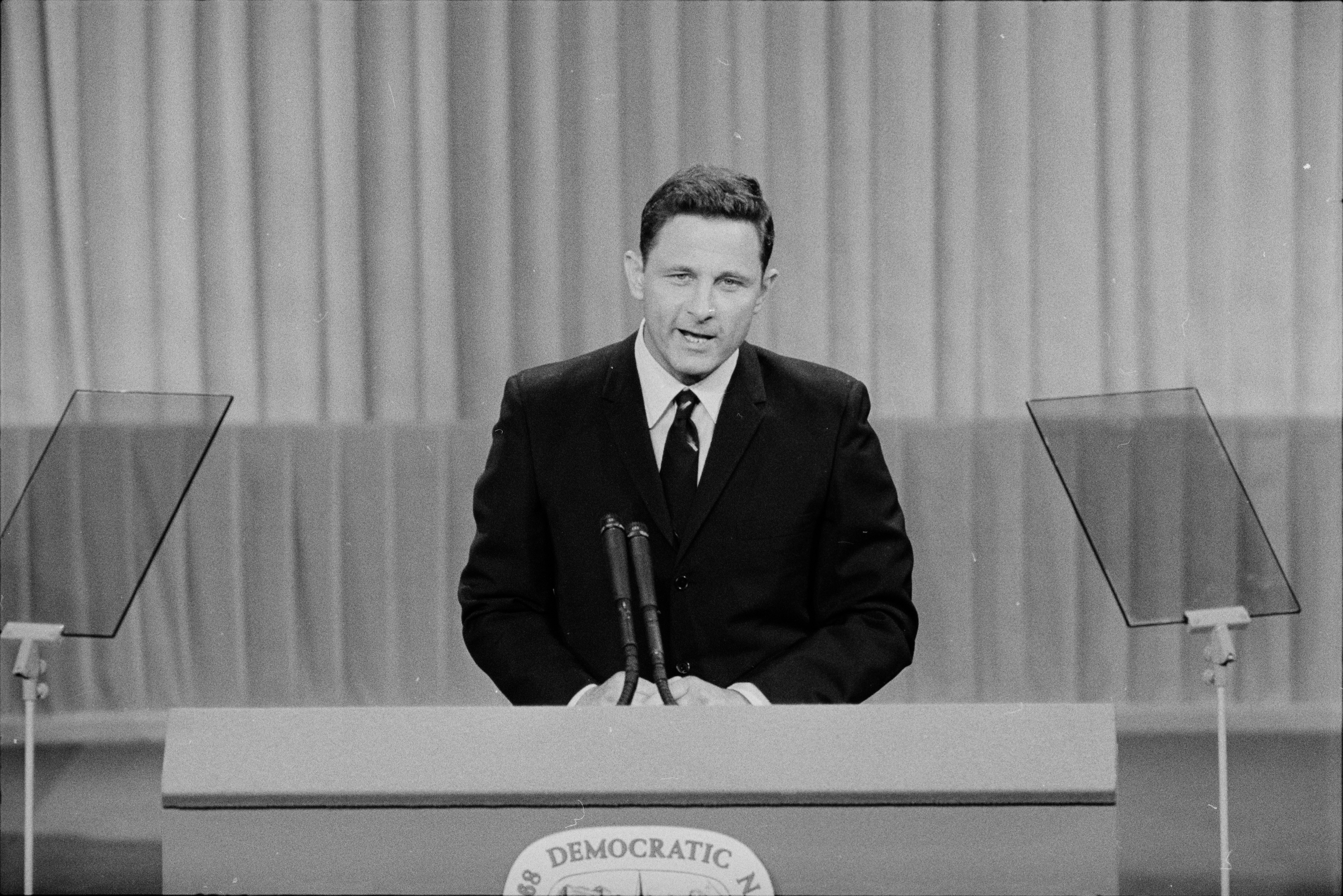 Birch Bayh speaking at 1968 DNC